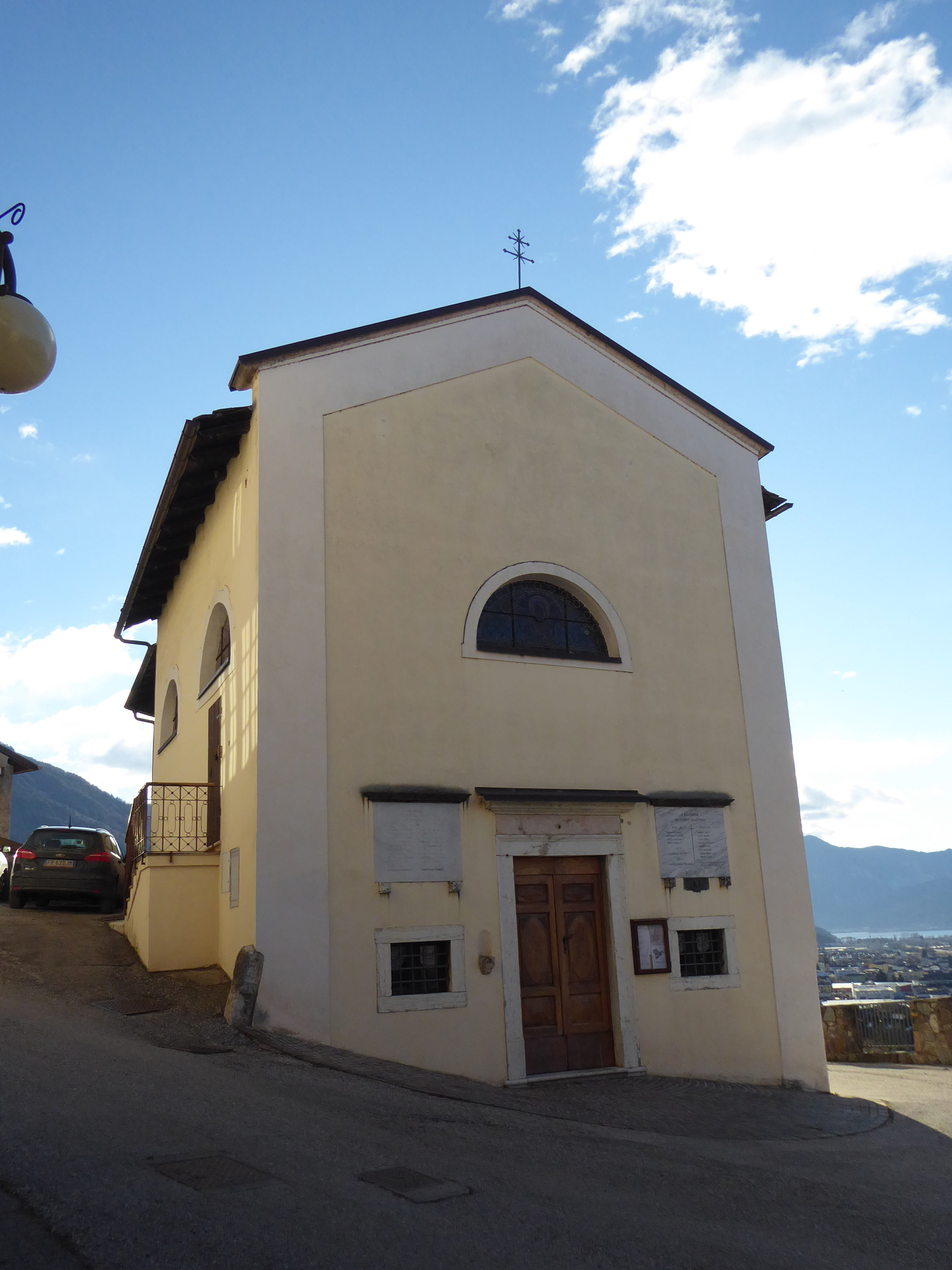 Vigalzano (Pergine Valsugana, Trentino, Italy) - Saint Peter of Alcántara church